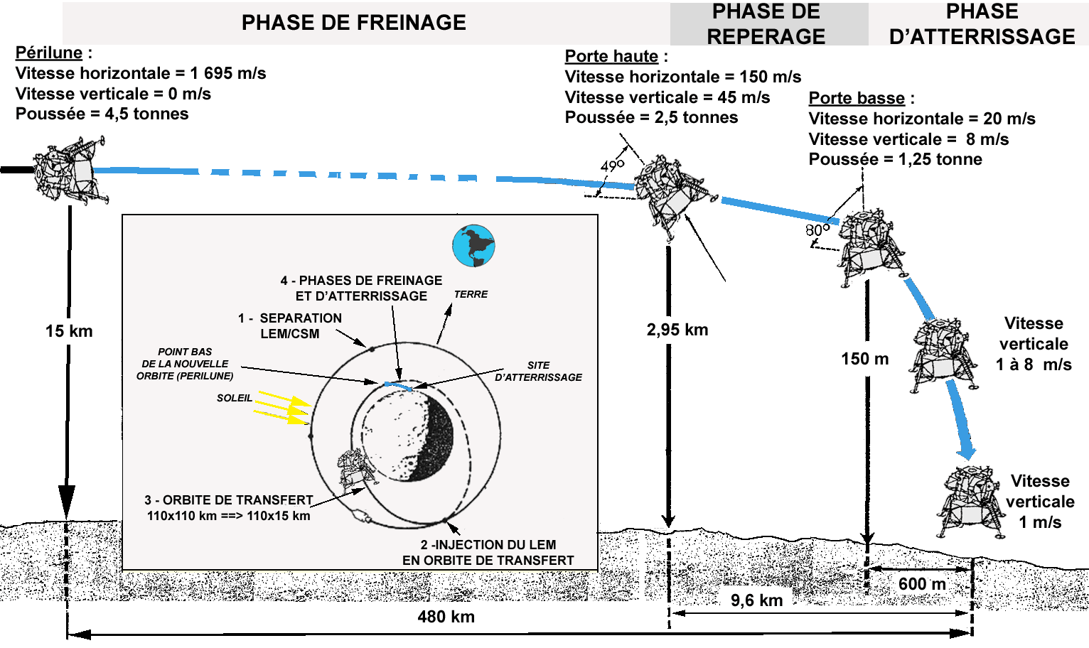 Landing trajectory of the Apollo Lunar Module